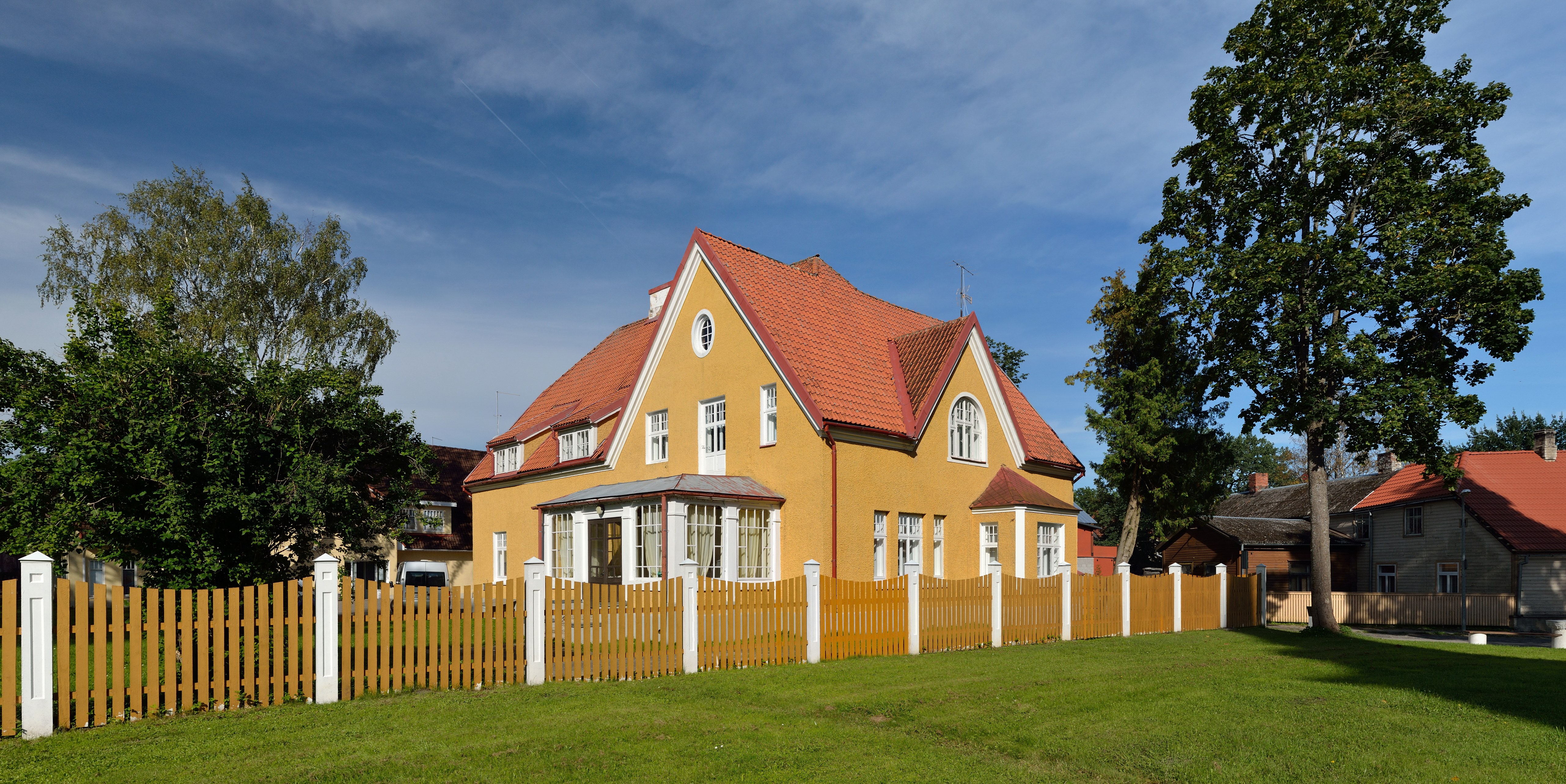 House in Viljandi, Pikk st 6